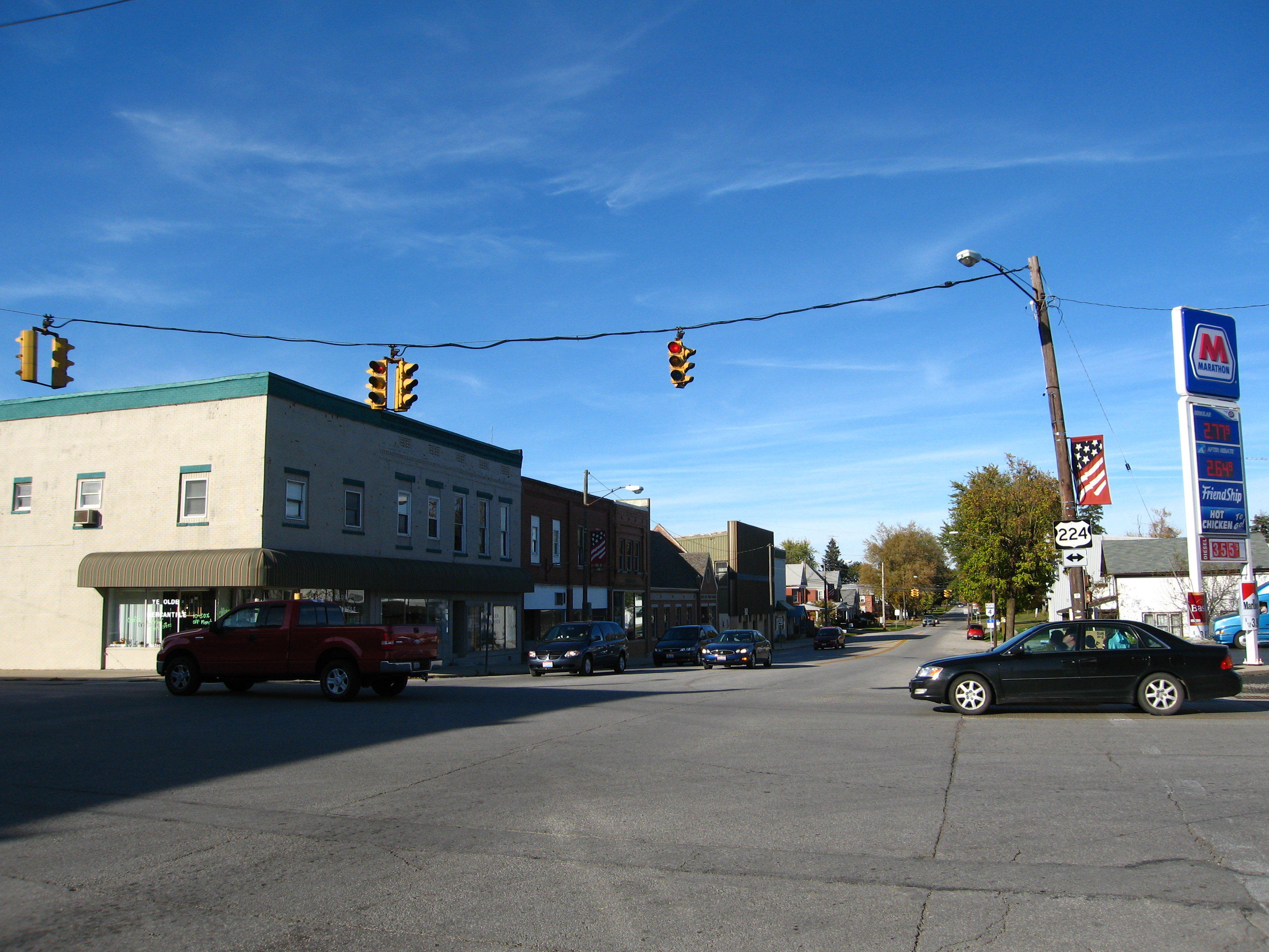 Photograph of the village of Attica, Ohioen, taken at ground level from South Main Street looking North toward the intersection of Ohio 4 and U.S. 224.